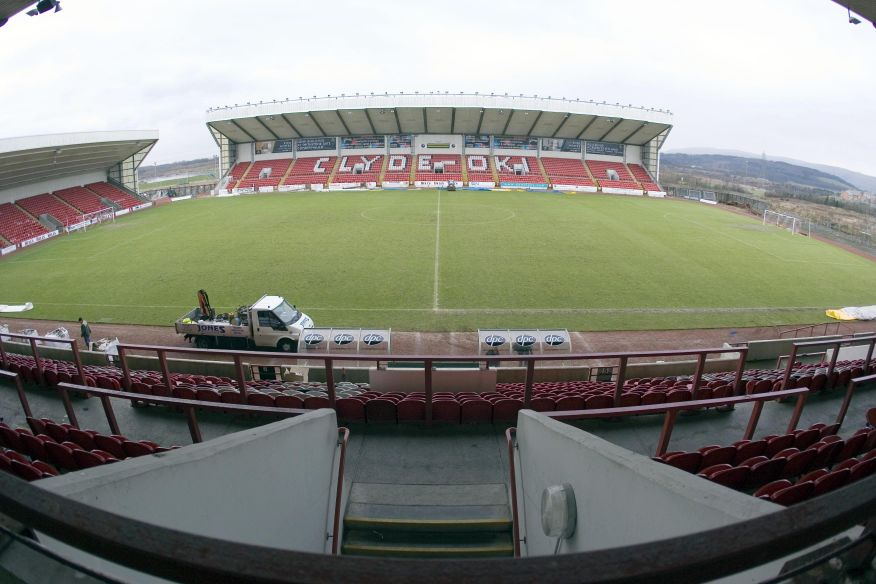 picture of broadwood stadium. i am the author